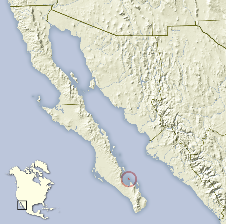 Distribution map of the Espíritu Santo antelope squirrel